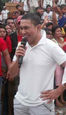 Portrait of Jose Manalo